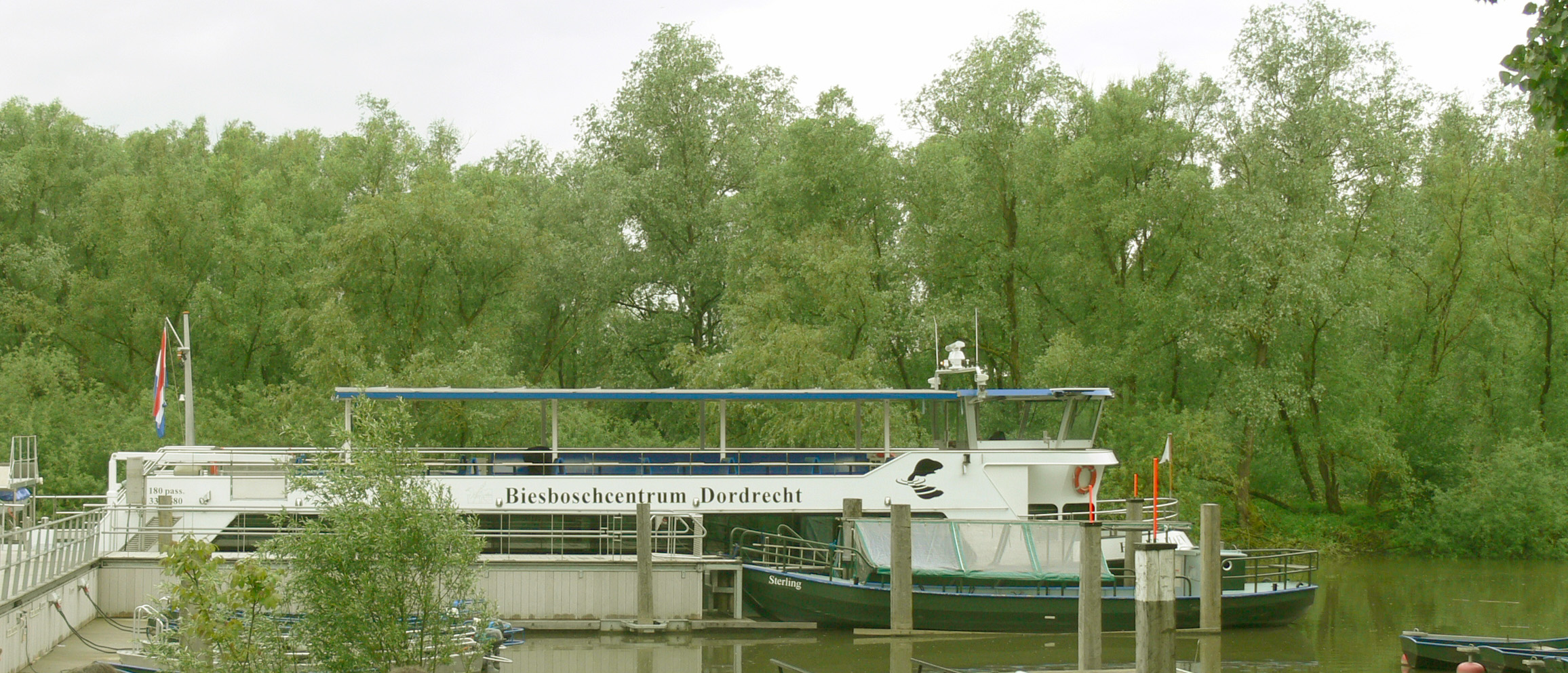 solar roof of the biggest solar boat in europe (ship Halve Maen, biesboschcentrum, Dordrecht, Holland)